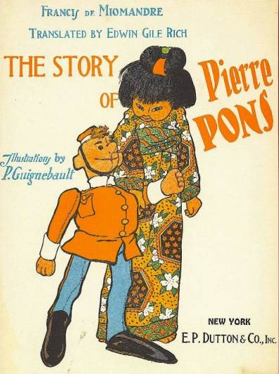 Book cover of The Story of Pierre Pons, designed by Paul Guignebault, translated from french by Edwin Gile Rich and published in New York, by E.P. Dutton & Co.